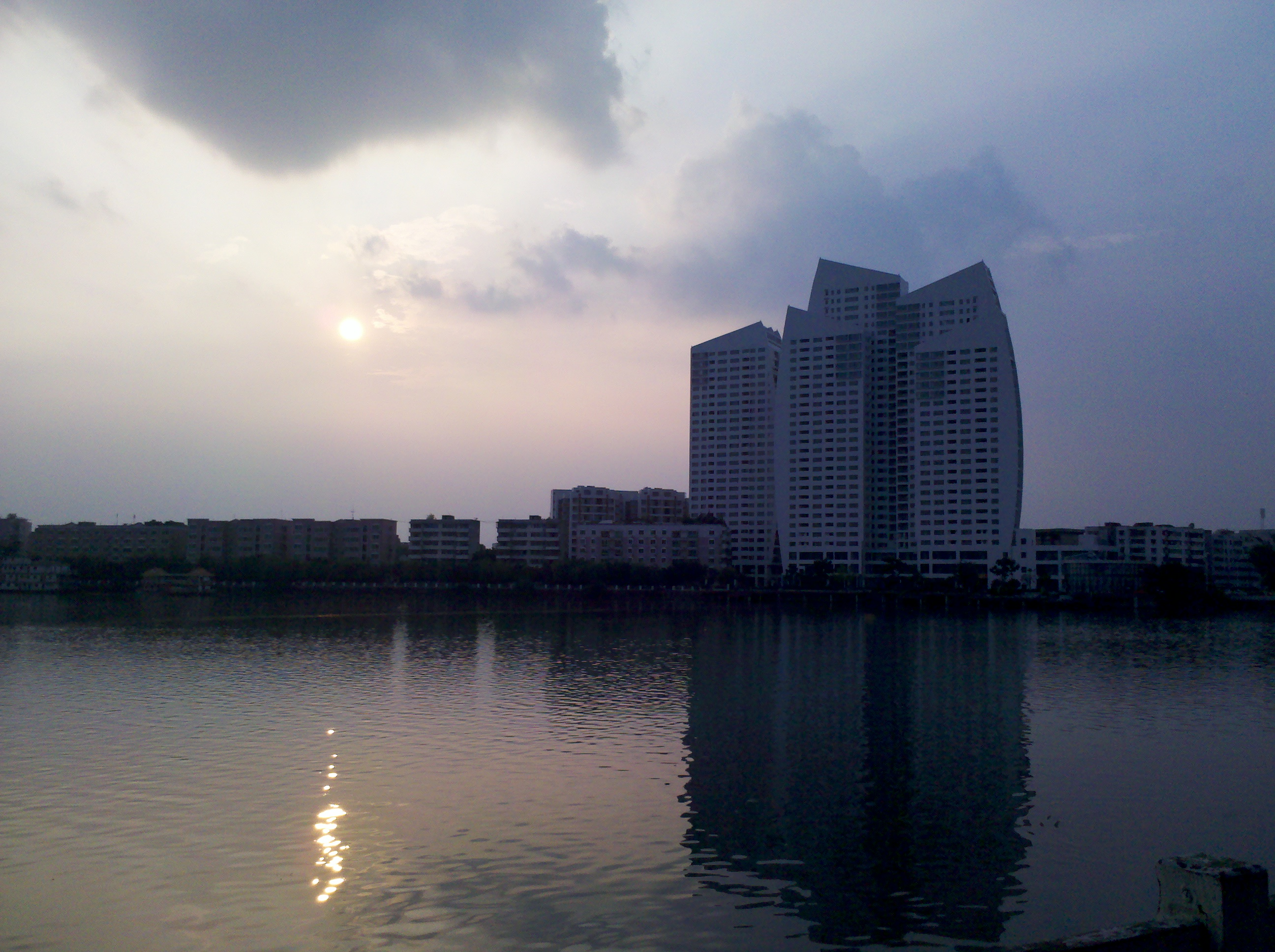 jintang,chengdu,sichuan,china